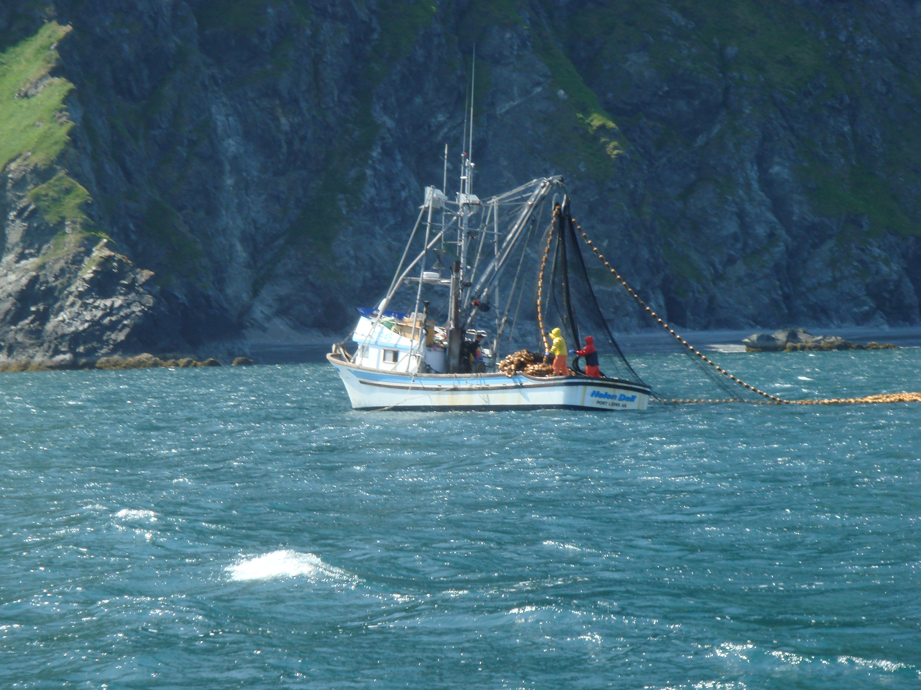 A seiner fishing for salmon off the coast of Raspberry Island, Alaska, in July 2009.